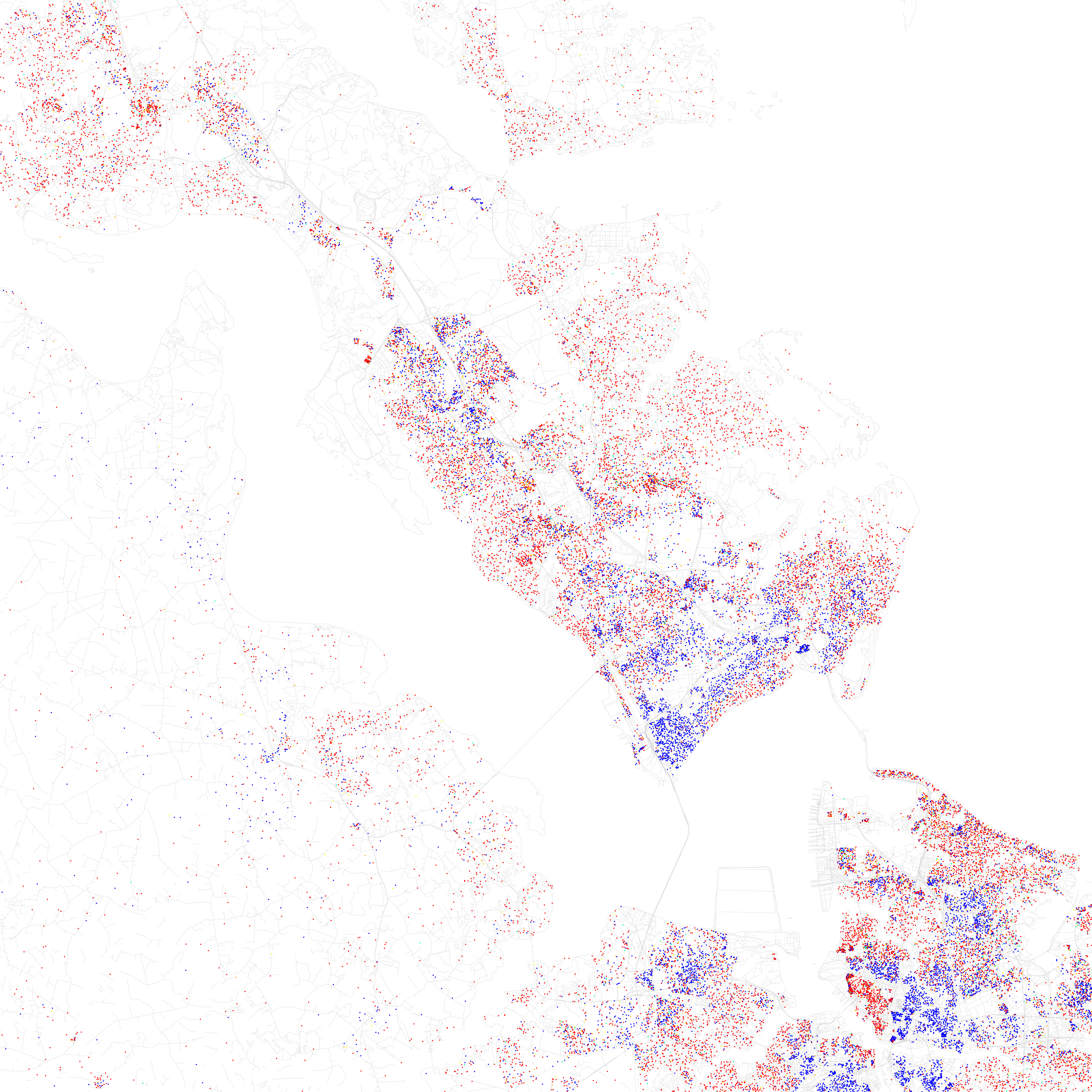 Maps of racial and ethnic divisions in US cities, inspired by Bill Rankin's map of Chicago, updated for Census 2010. Red is White, Blue is Black, Green is Asian, Orange is Hispanic, Yellow is Other, and each dot is 25 residents. Data from Census 2010. Base map © OpenStreetMap, CC-BY-SA